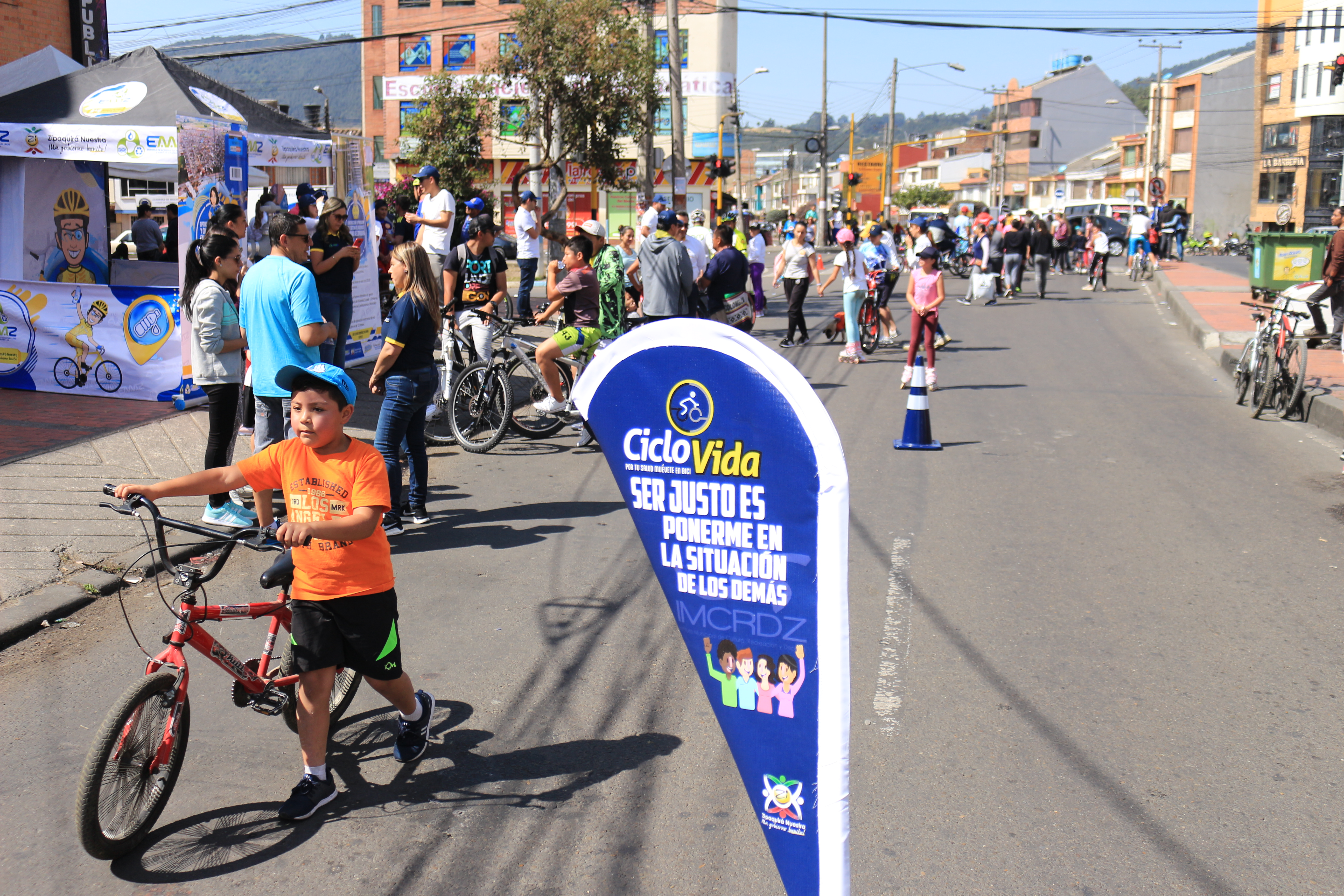 CicloVida